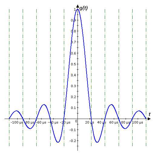 Sinc function for discretization rate 44100 Hz